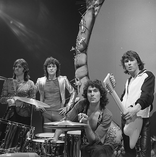 Golden Earring in AVRO's TopPop (Dutch television show) in 1974